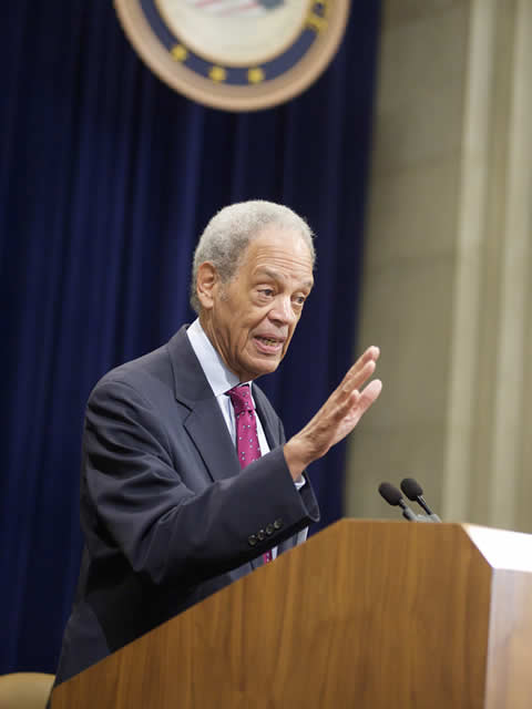 Roger Wilkins, who served as the 2nd National Director of Community Relations Service